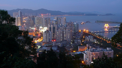 Zhuhai skyline at night Zhuhai, Guangdong Province, China 2007 Source: me.